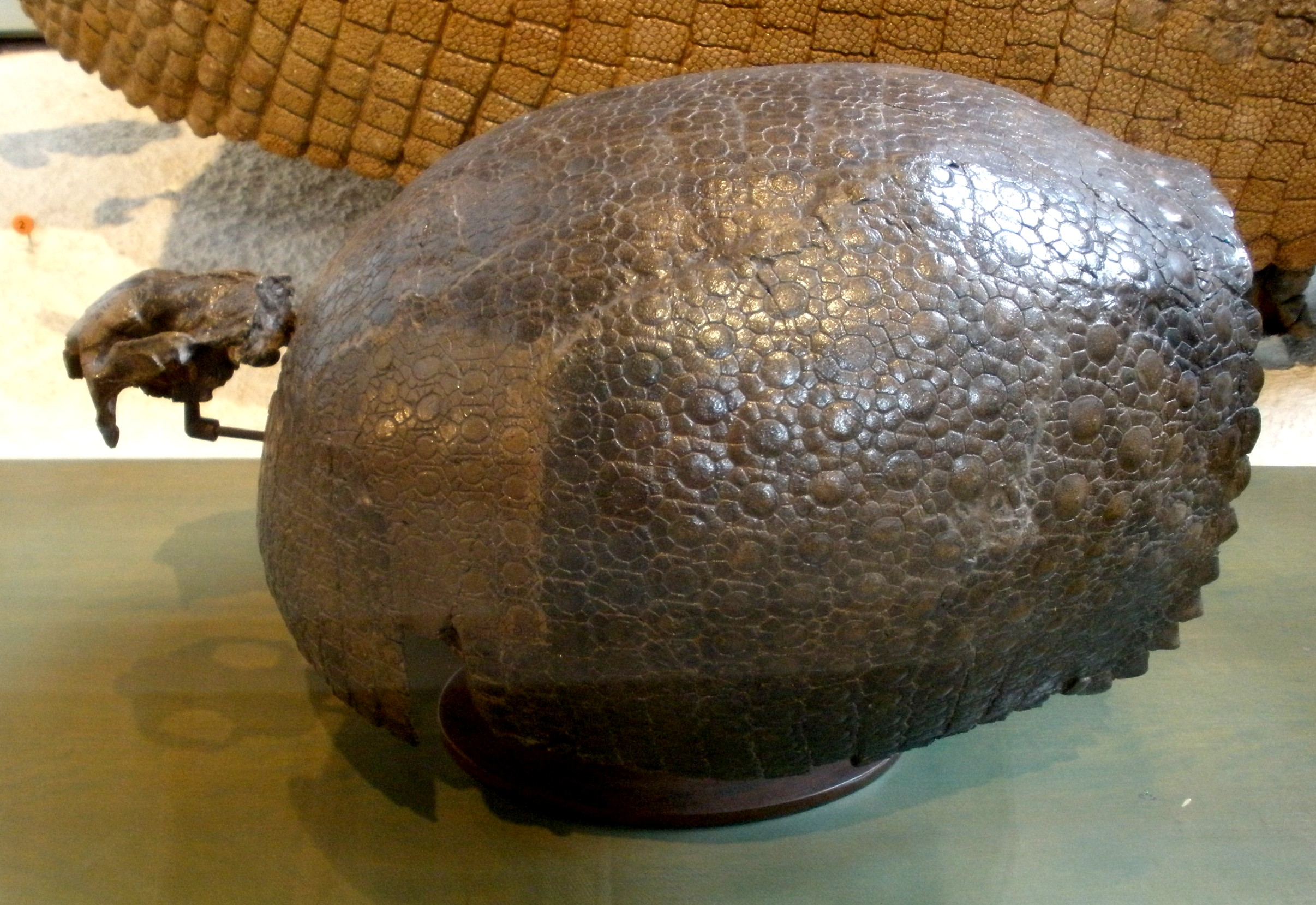 Fossil of Propalaeohoplophorus minor, a fossil glyptodont